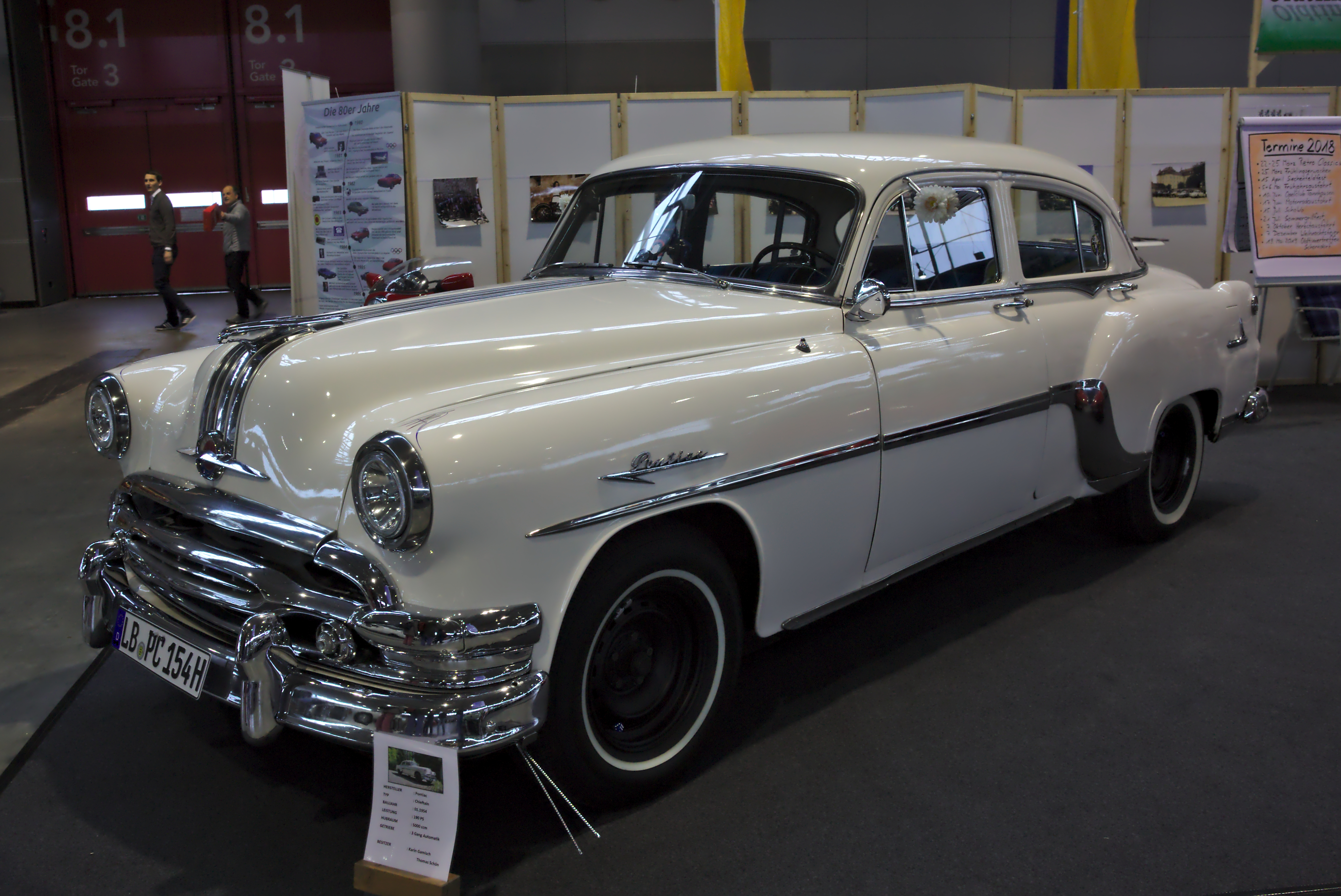 Pontiac Chieftain at Retro Classics 2018